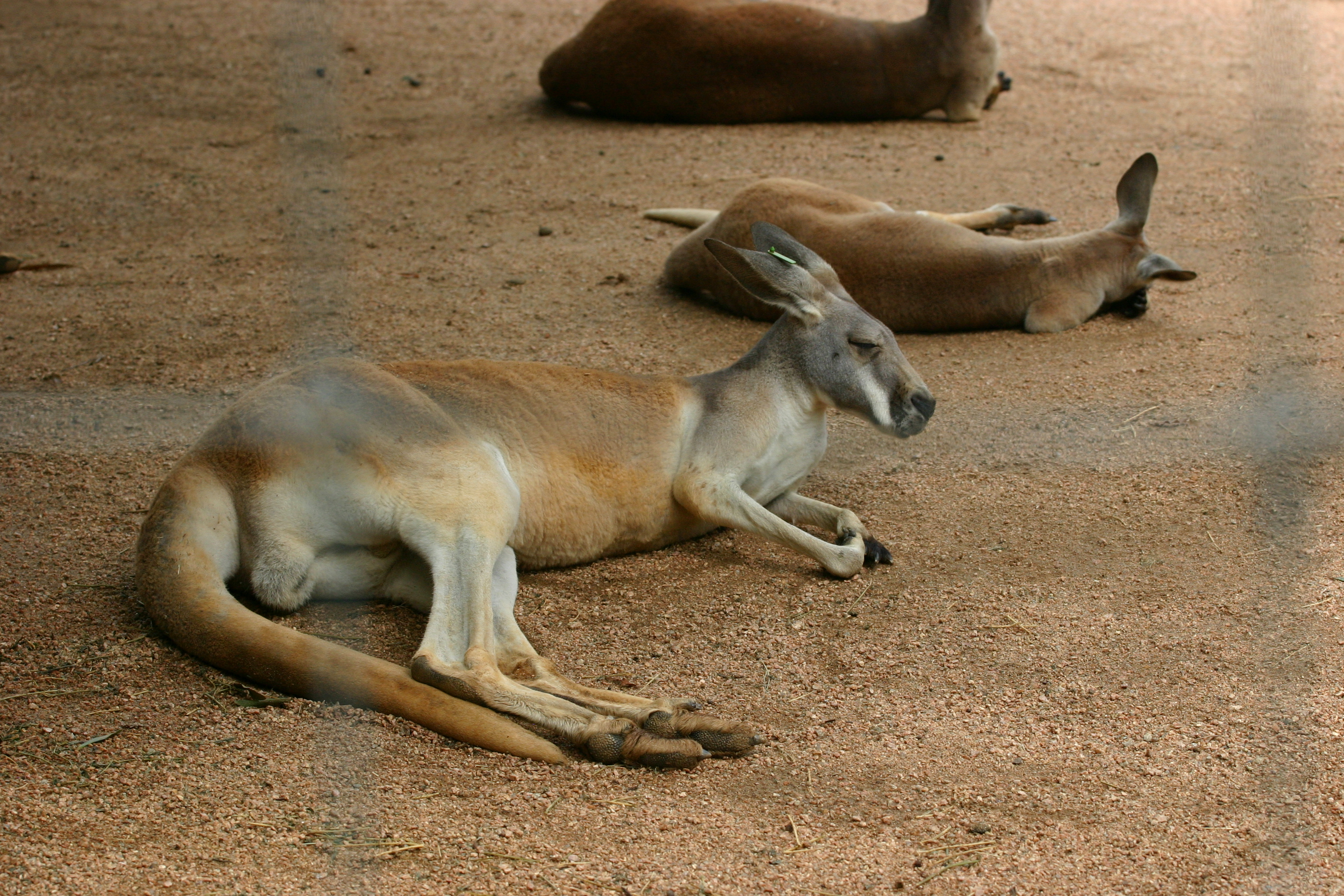 Red Kangaroos lying down in the dust.